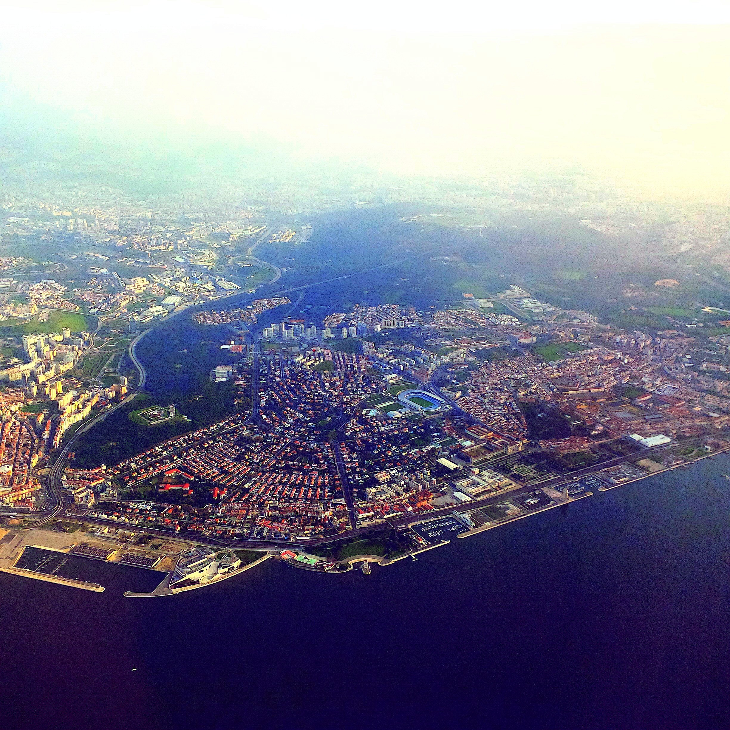 Belém in Lisbon, aerial view (2014).